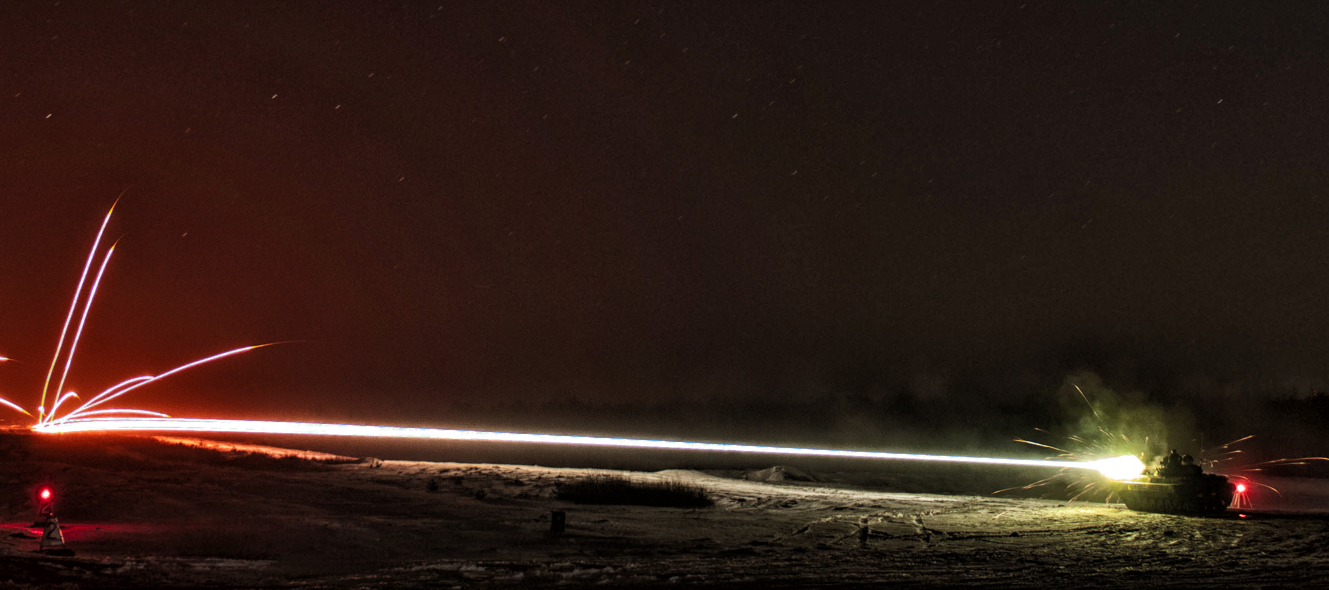 BMP-2 armored vehicles from the Ukrainian army's 1st Battalion, 28th Mechanized Infantry Brigade engage targets after nightfall on Feb. 16 while training at the International Peacekeeping and Security Center, near Yavoriv, Ukraine. (Photo by Sgt. Anthony Jones, 45th Infantry Brigade Combat Team)